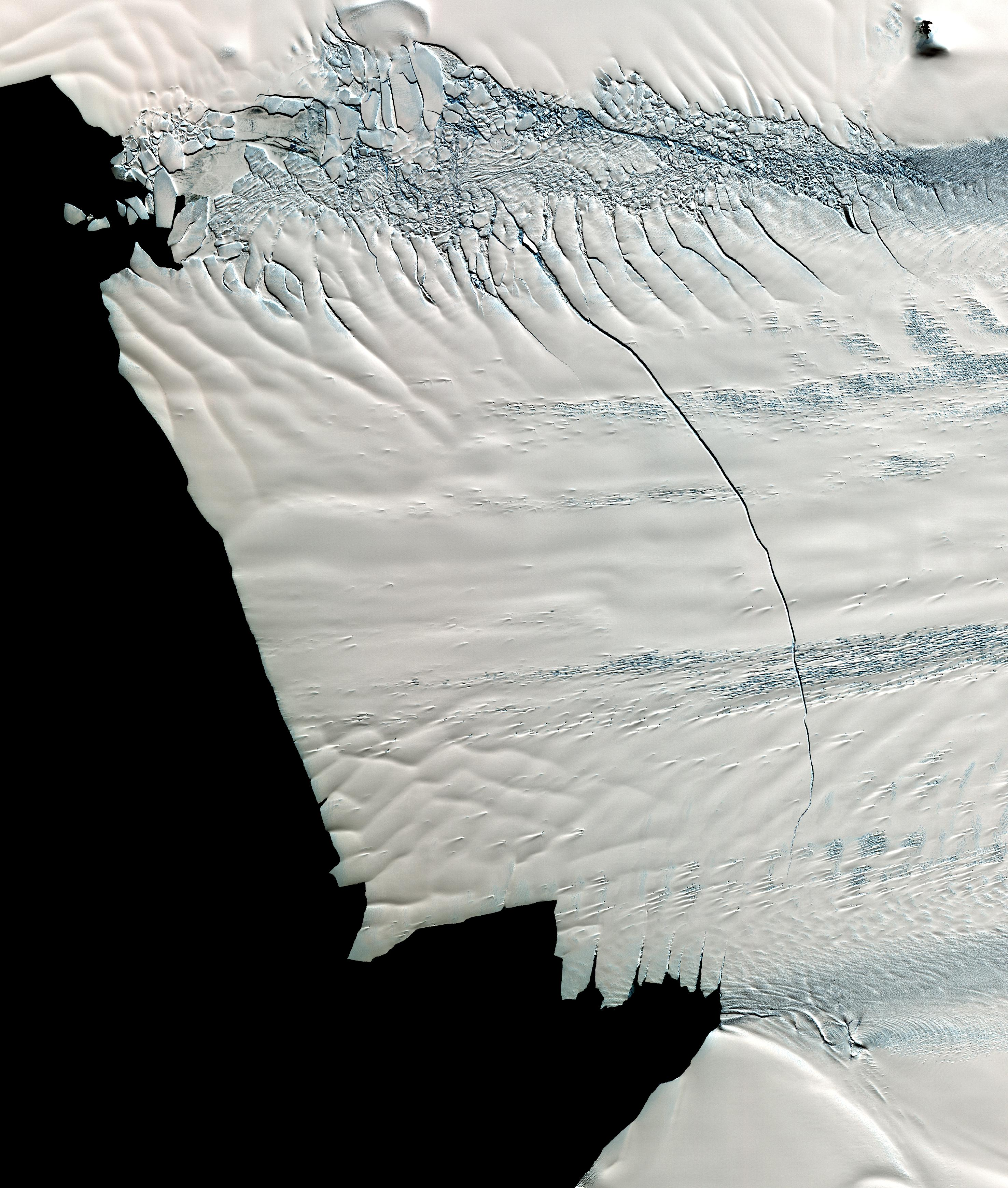 Satelite image showing the floating front of the Pine Island Glacier in West-Antarctica. An 18 mile long crack, discovered in October 2011, is running across the glacier. The eventually created ice berg will have an expected area of ca. 900 square kilometers (340 square miles). The image was made by NASA's Terra Satellite on November 13th, 2011.